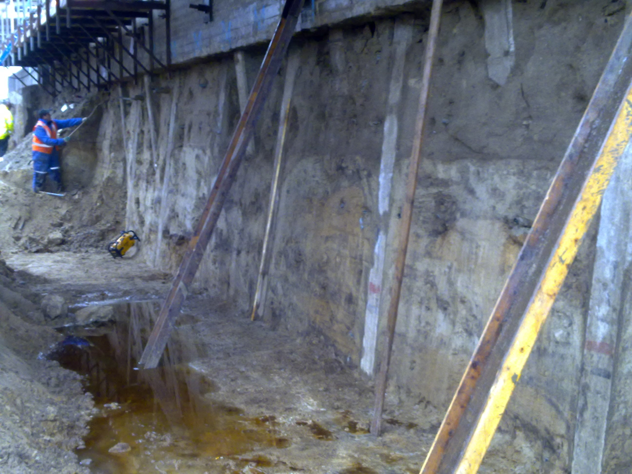 Vertical constructive soil injection between piles